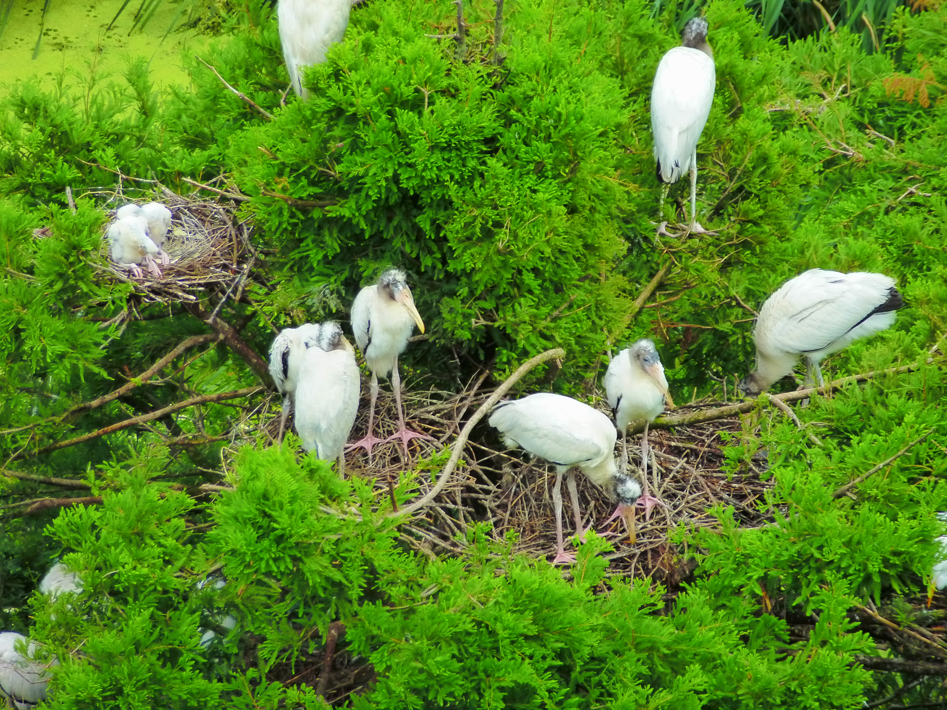 A Wood Stork nesting colony at Harris Neck National Wildlife Refuge, Georgia, USA.